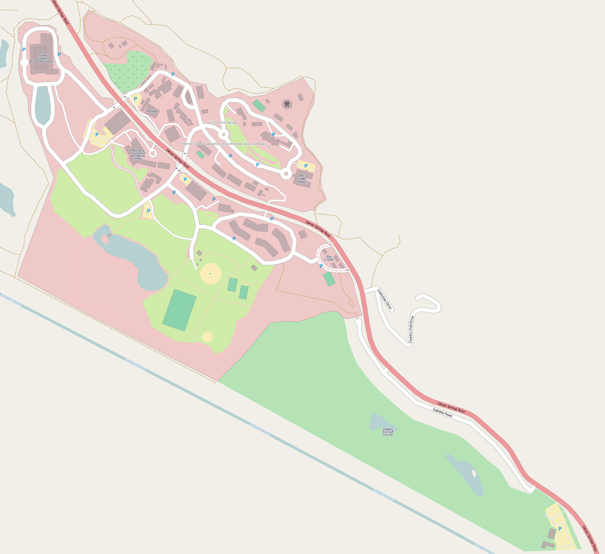 Map of Gold Base near Hemet, CAThis map of Gold Base, near Hemet, CA was created from OpenStreetMap project data, collected by the community. This map may be incomplete, and may contain errors. Don't rely solely on it for navigation.